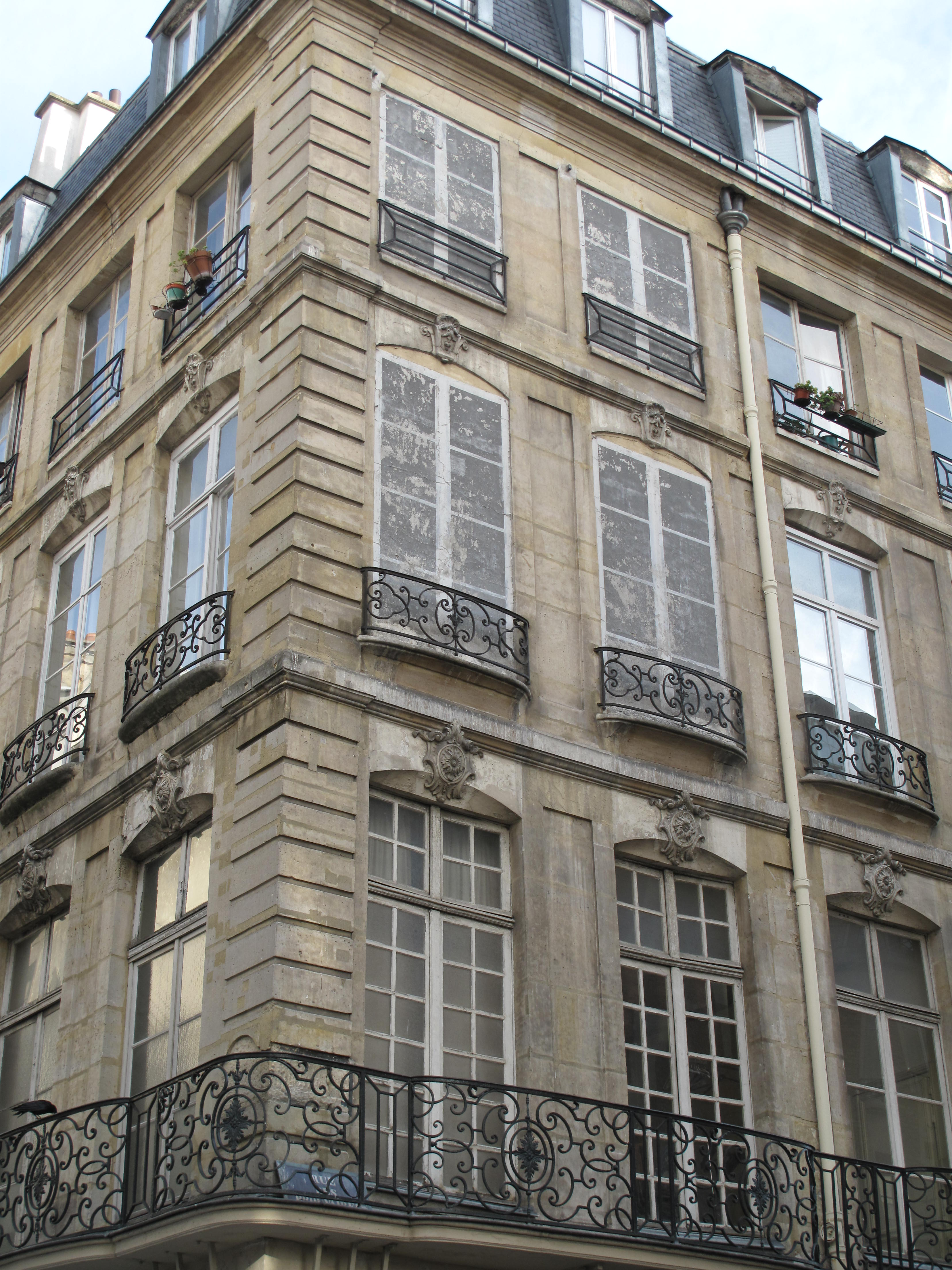 Building with blind windows painted in trompe l'oeil : Corner of the rue Saint-Honoré and the rue des Prouvaires, Paris 1st arr.